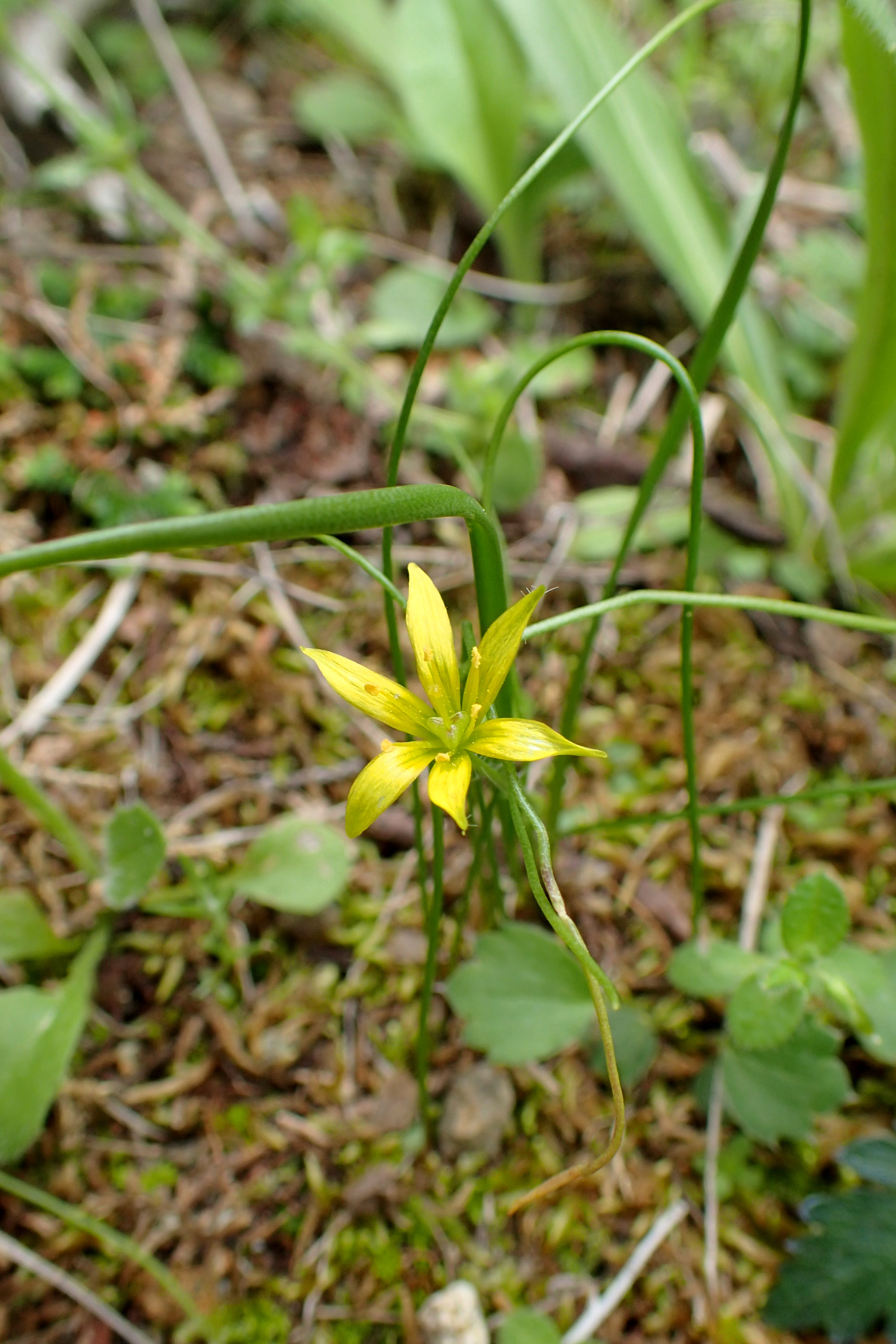 Gagea peduncularis on Akamas Peninsula, Cyprus